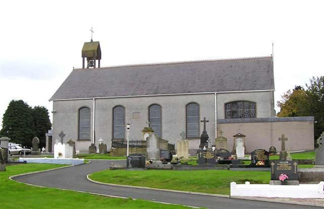 Ballylifford RC Church It is near Ballydonnell